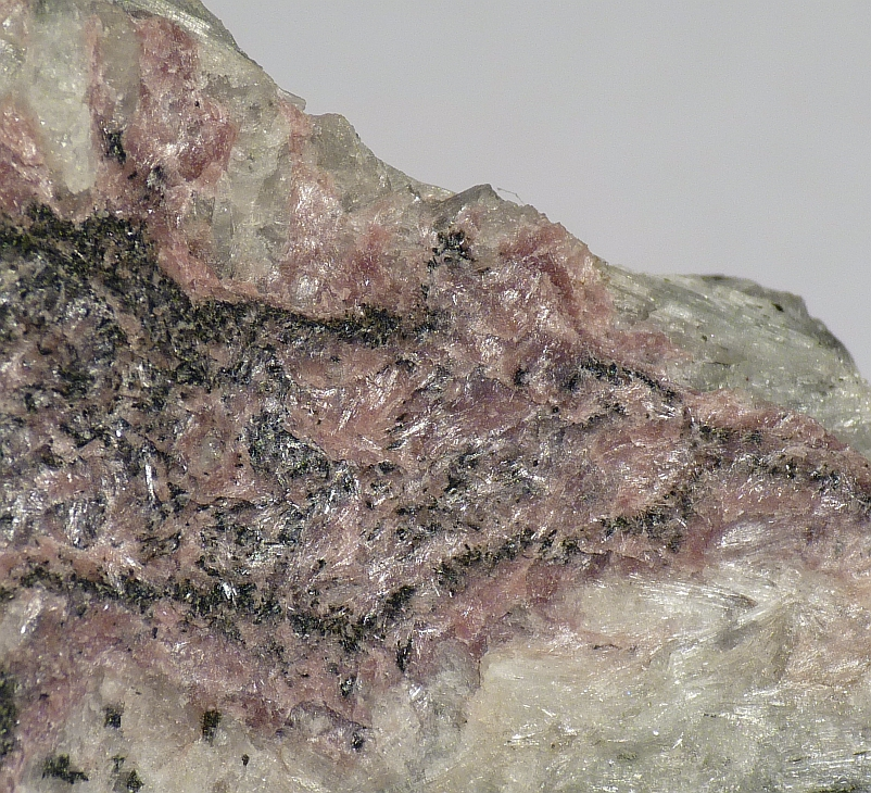 Miserite, Pectolite Locality: Union Carbide Mine, Wilson Springs (Potash Sulfur Springs), Garland Co., Arkansas, USA Pink fibrous masses of miserite in matrix associated with white pectolite. Field of view 2.5 cm.